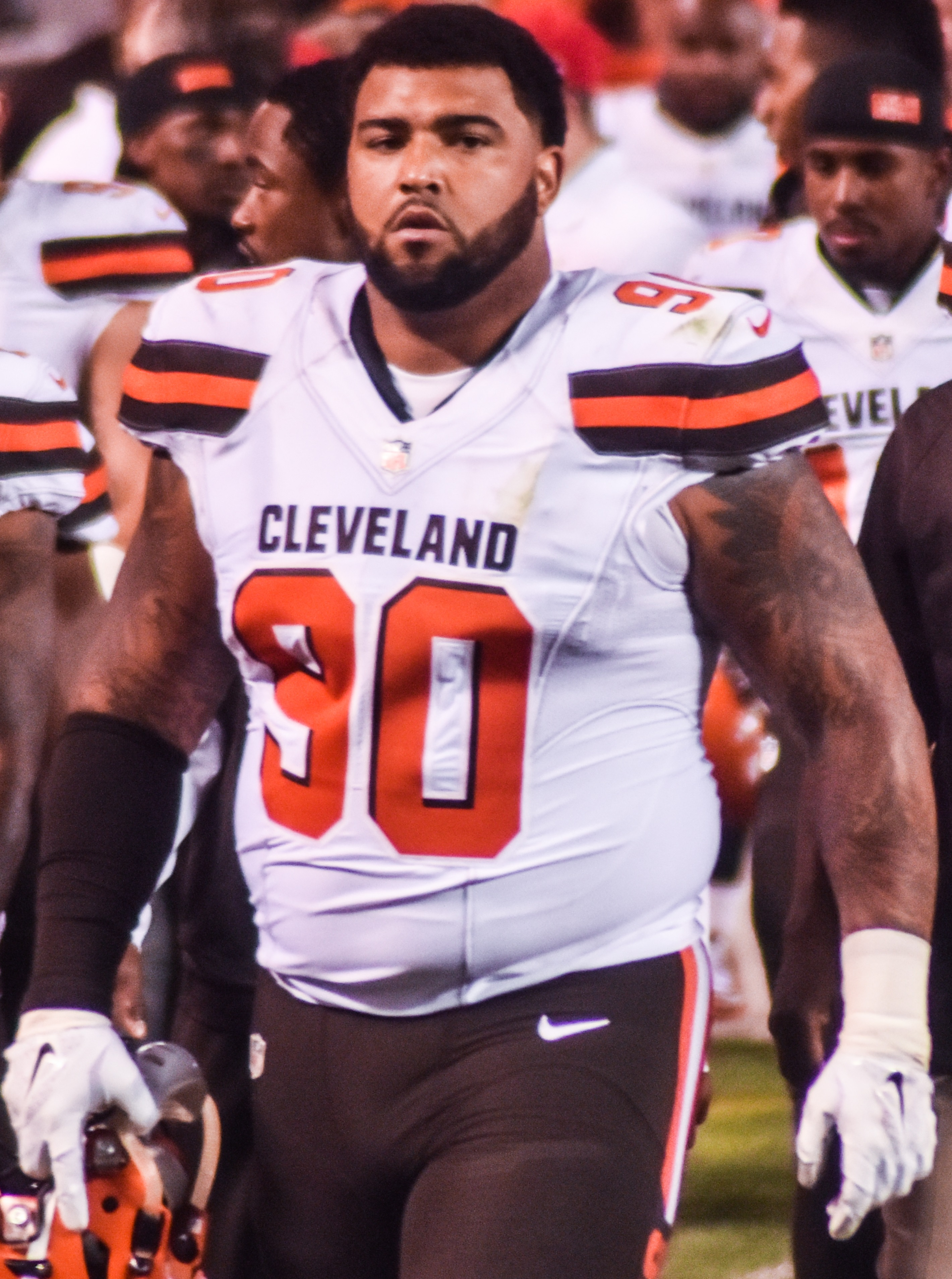 Browns vs Bills 2015